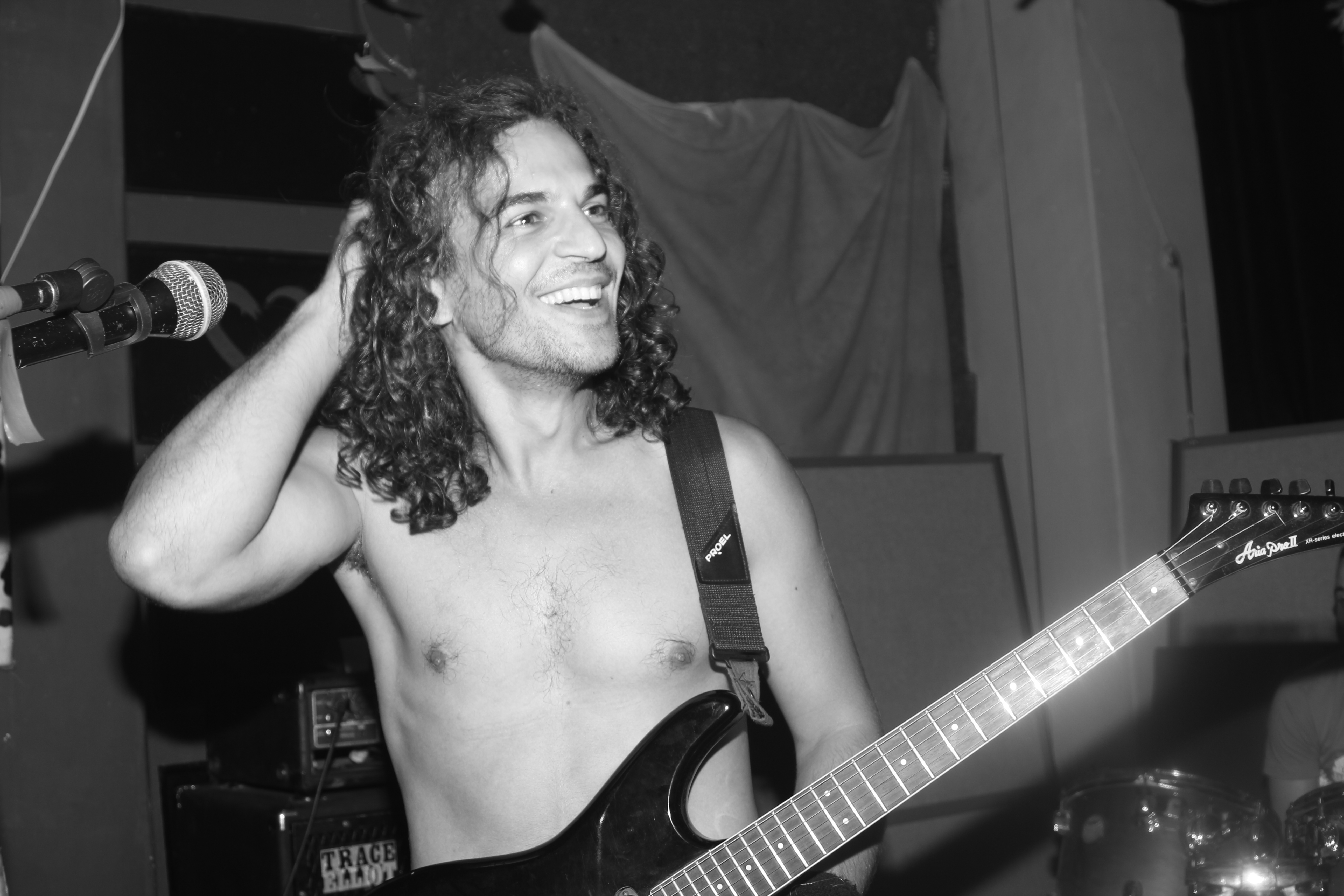 Damjan Pavlica, frontmen, live at the BIGZ 2011.